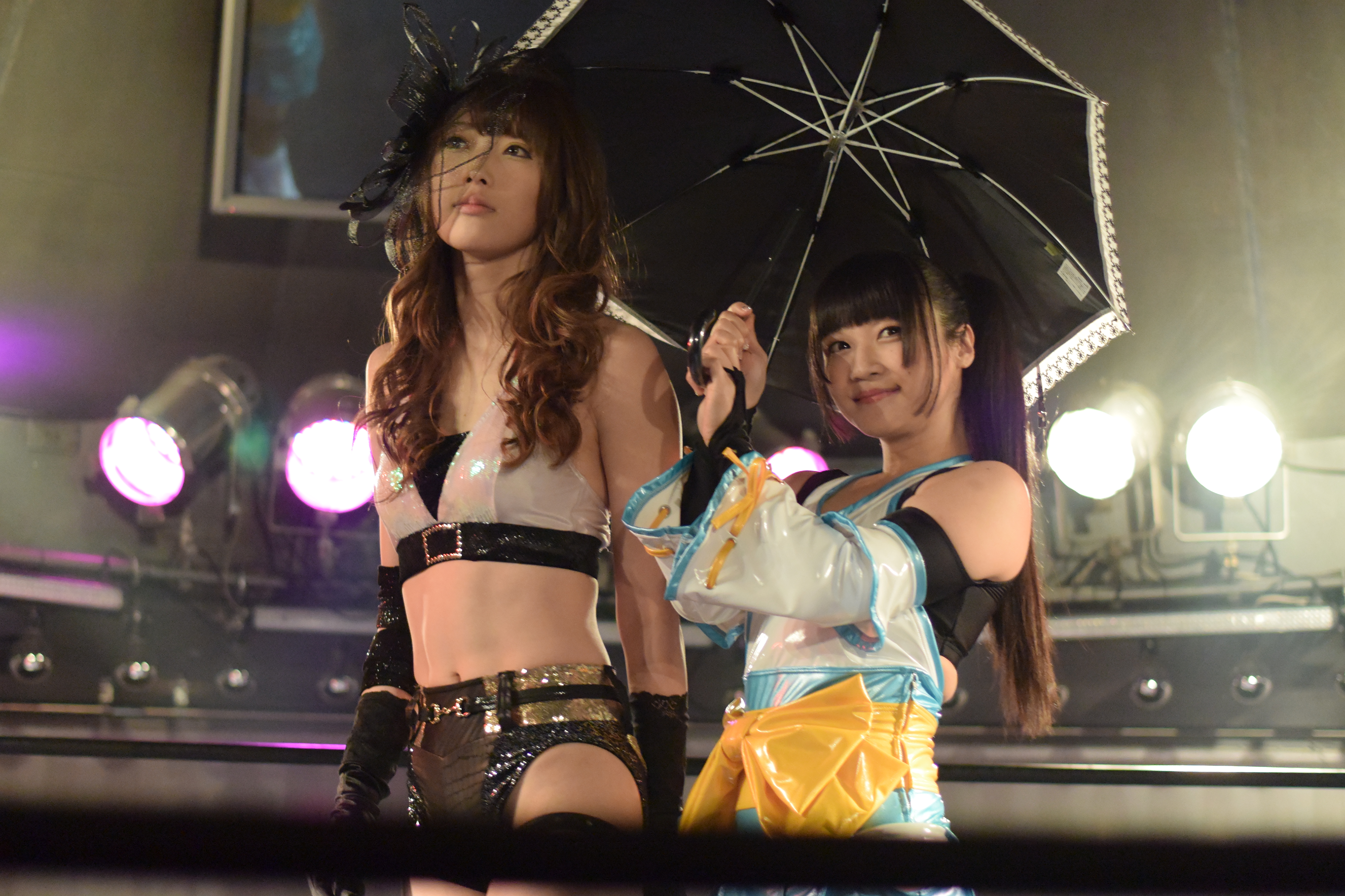 Biishiki Gun [Saki Akai & Ai Shimizu] (May 22, 2015 at Oji BASEMENT MONSTAR)